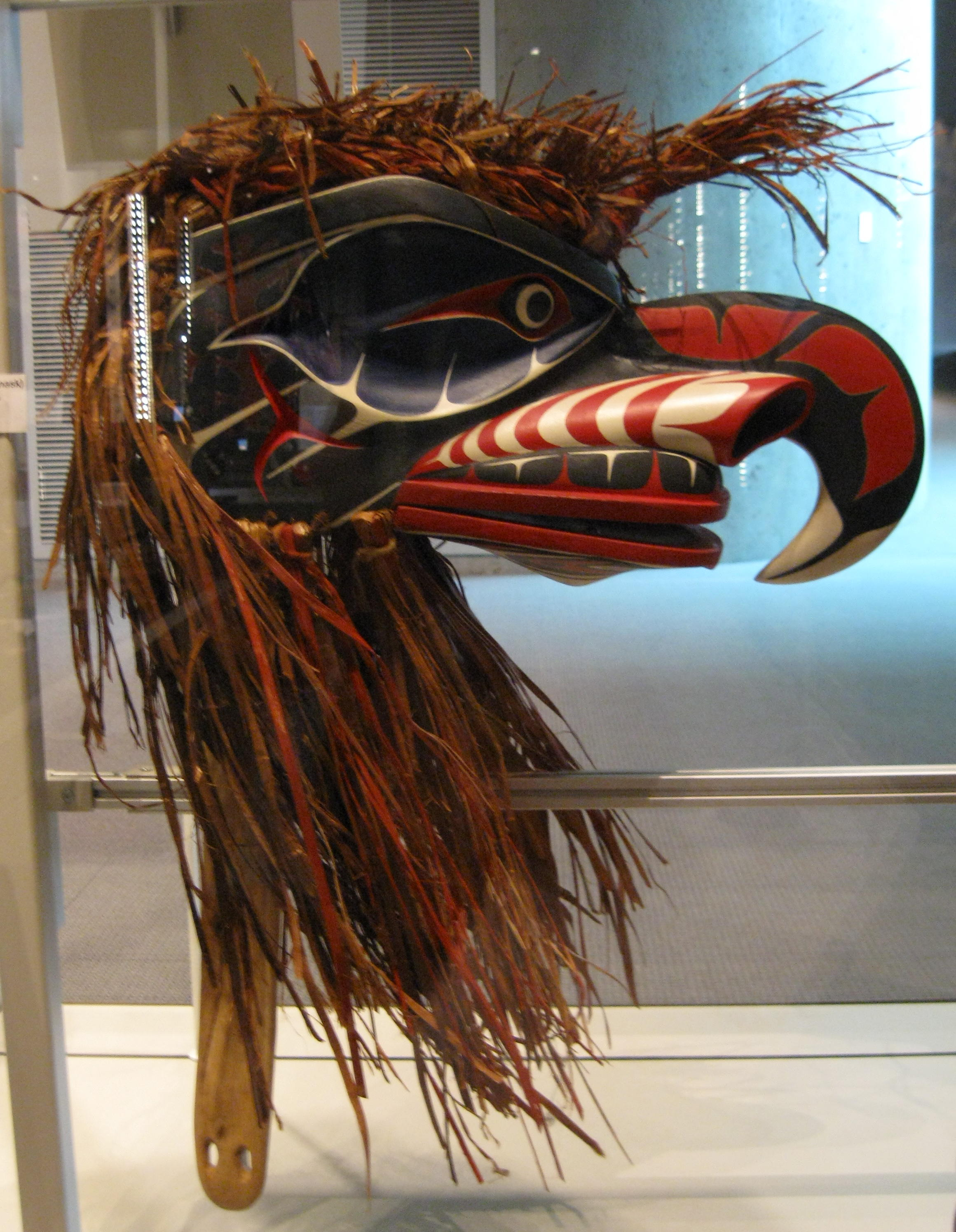 A native American Nuxalk mask or "squXsEn" today located within the UBC Museum of Anthropology's collection in Vancouver, Canada.